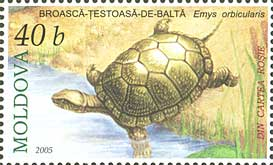 Stamp of Moldova